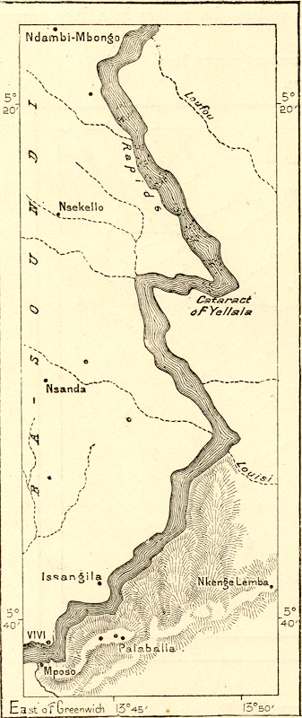 map of Congo river between Inga and Matadi around 1890